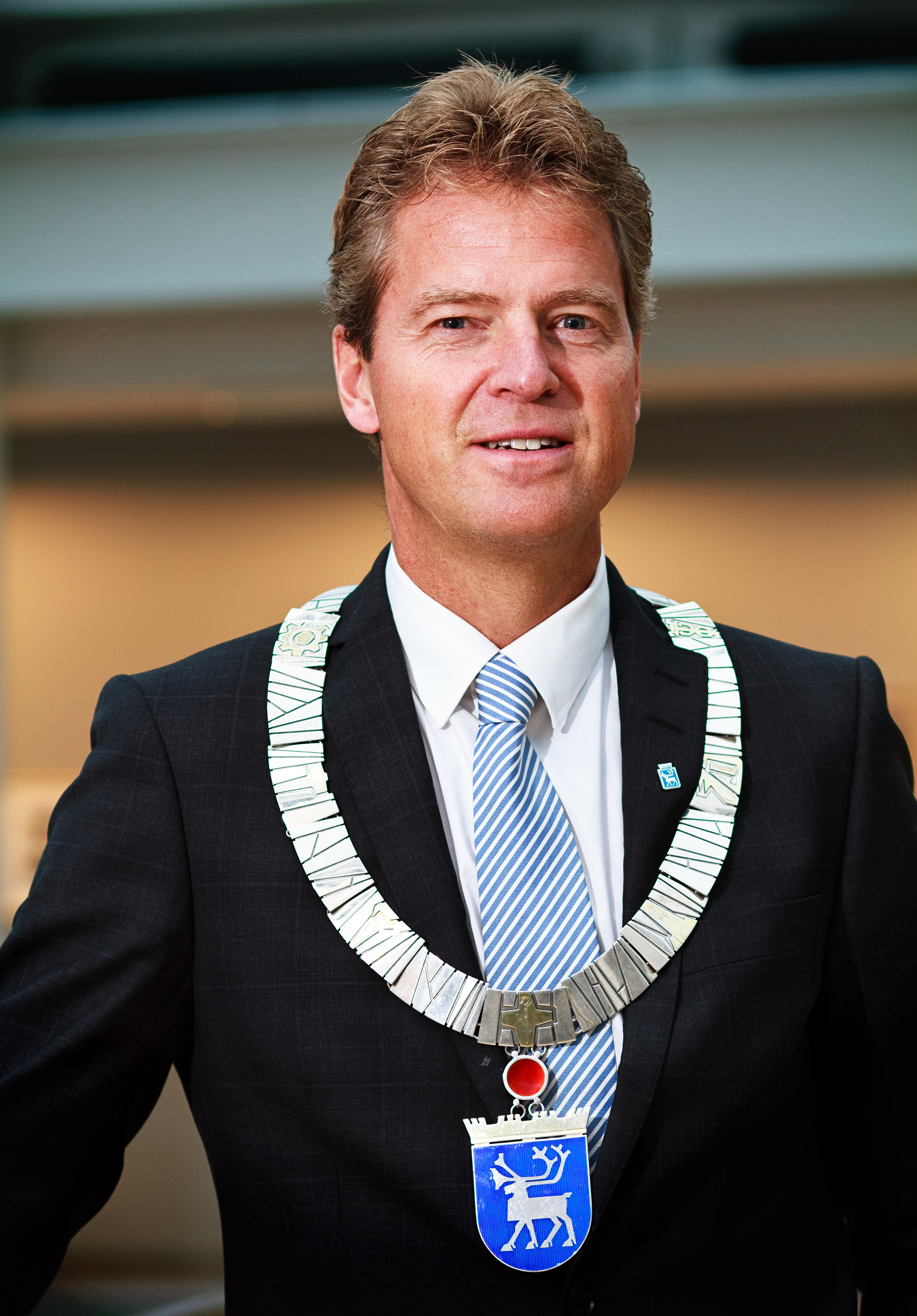 Jens Johan Hjort, Mayor of Tromsø, Norway from 2011